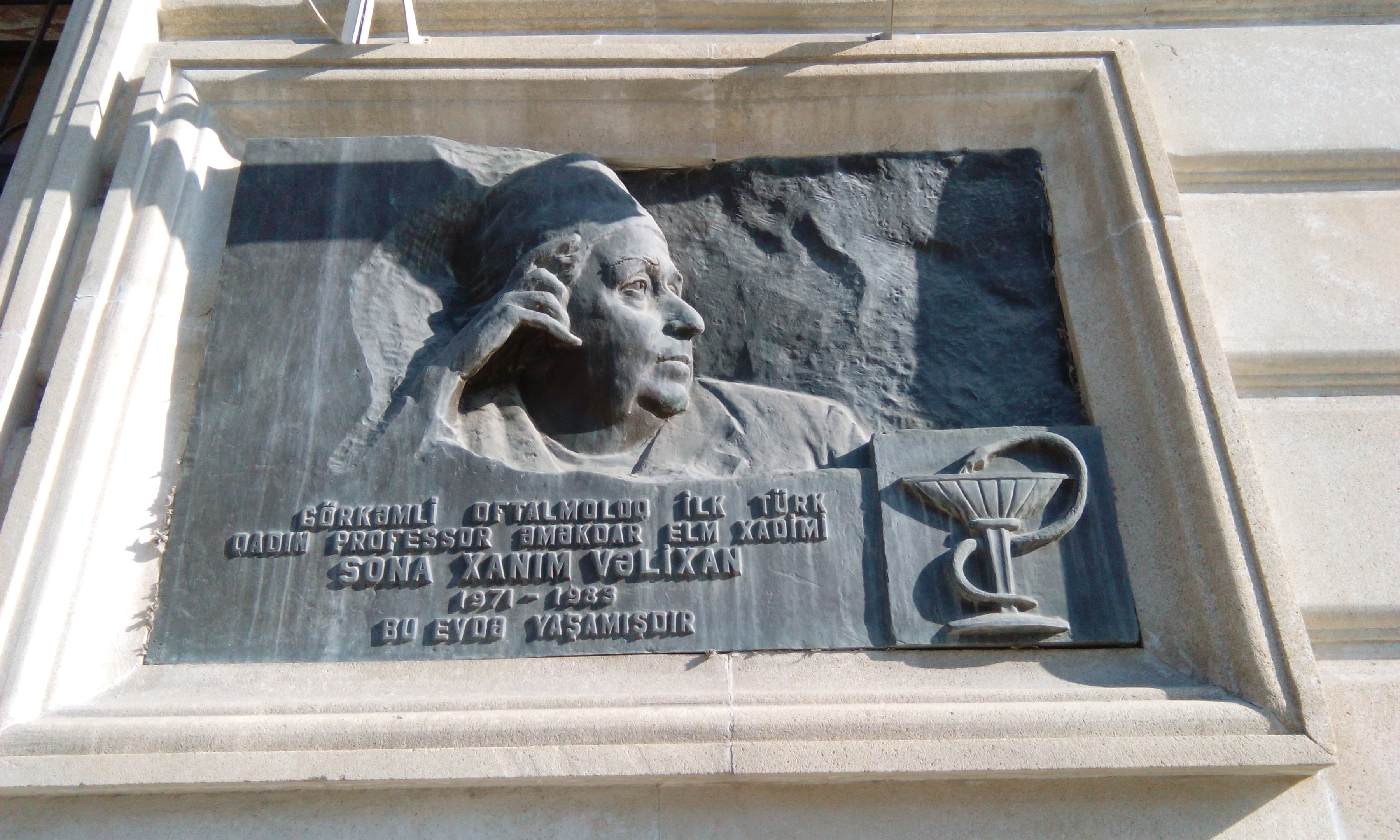 Plaque on building where Azerbaijani ophthalmologist Sona Valikhan lived in Baku, Azerbaijan.